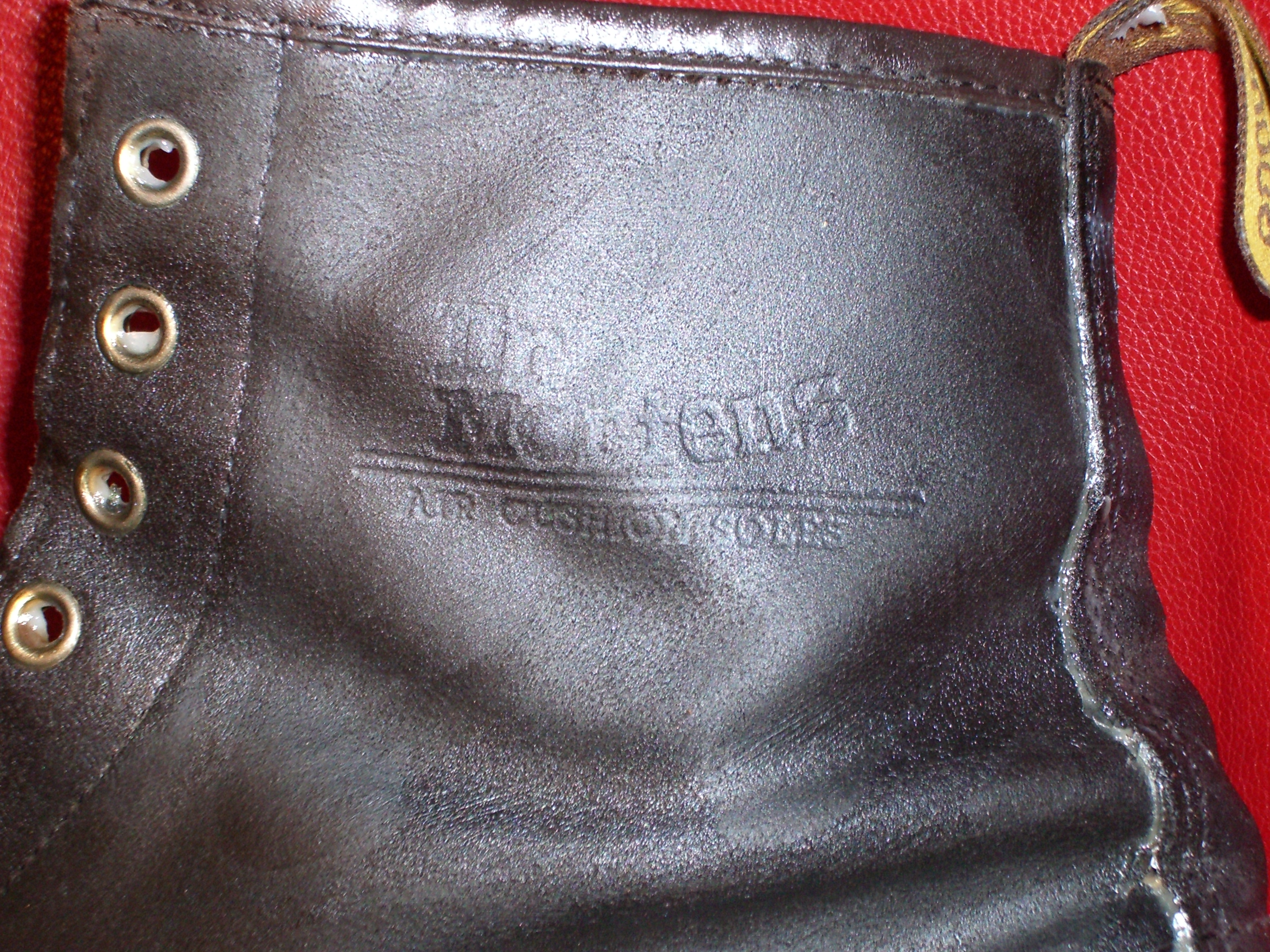 Dr. Marten's brand stamped on the outer sides of both boots.